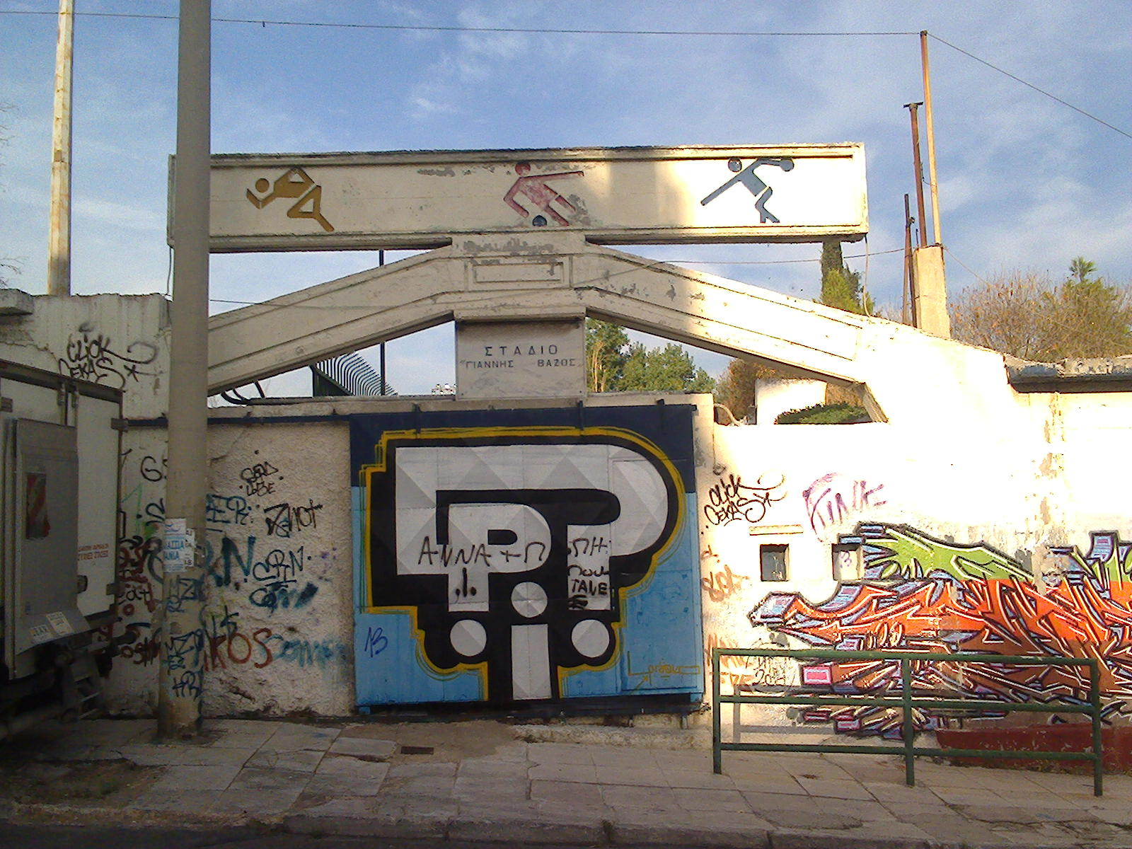 The main entrance of the Municipal Stadium of Drapetsona, also known as Giannis Vazos Stadium.